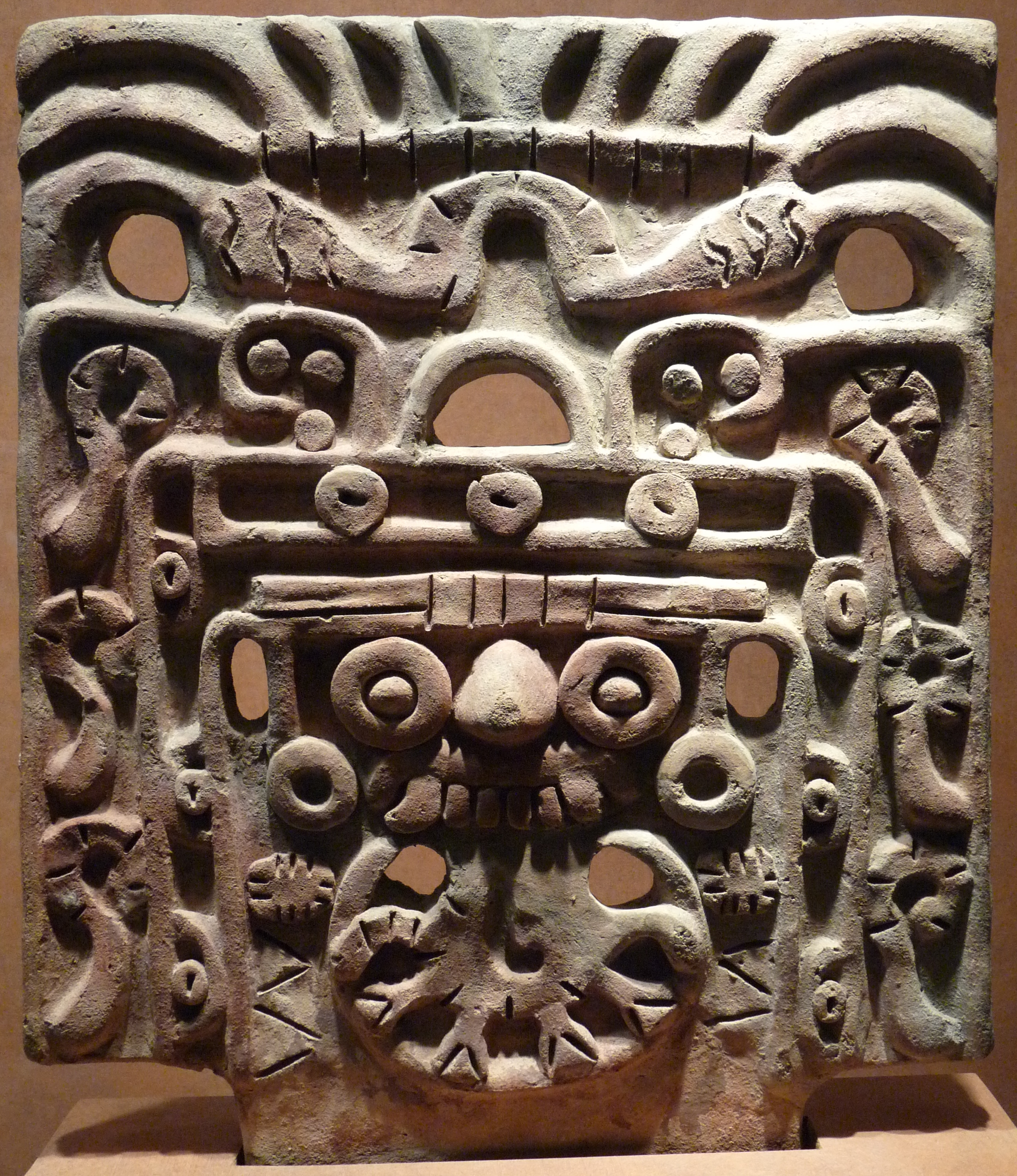 Mask of Tlaloc, nahua god of the rain (National Museum of Anthropology and History in Mexico City - Teotihuacán hall).